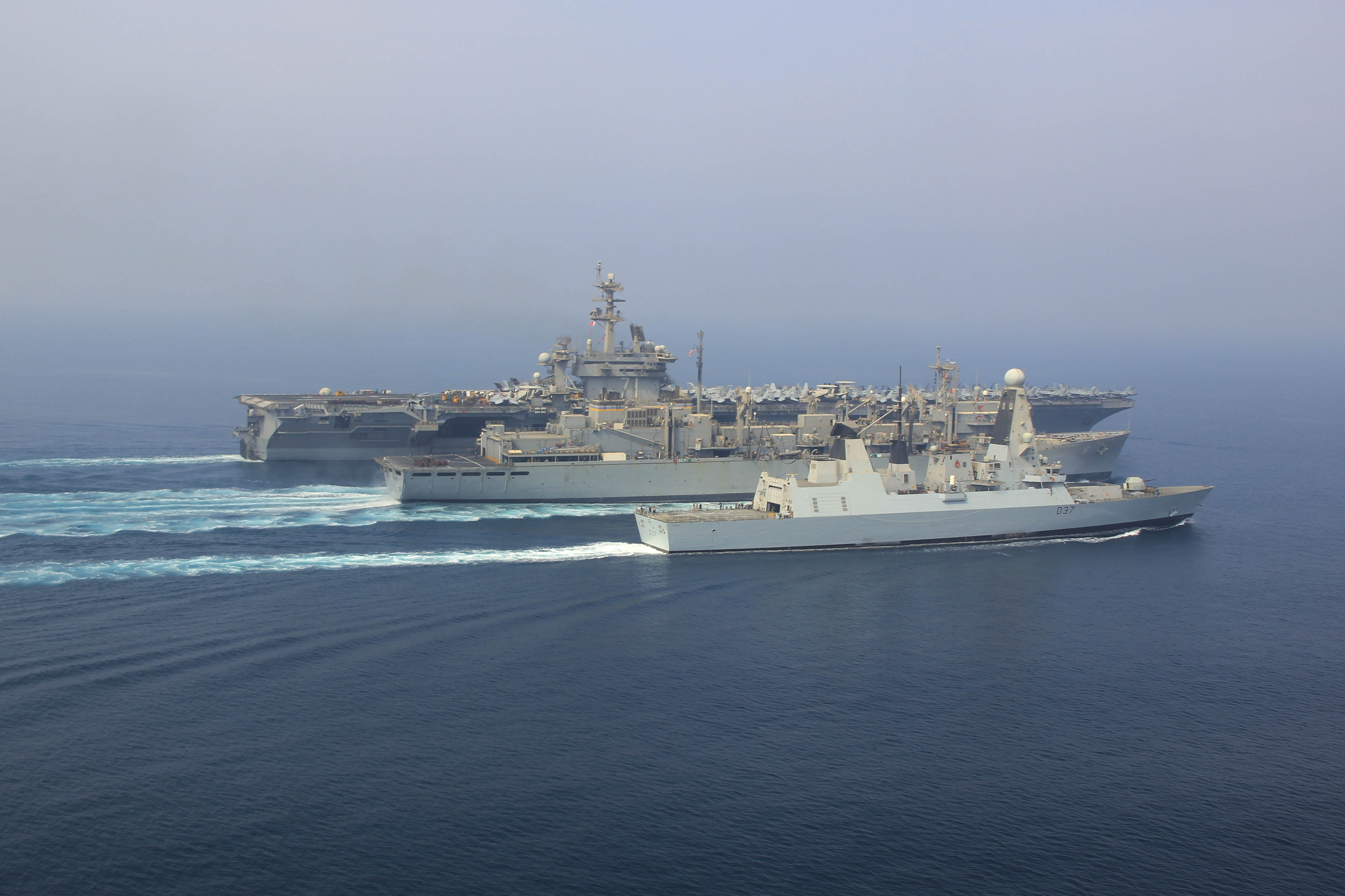 ARABIAN GULF (August 26, 2015)- The aircraft carrier USS Theodore Roosevelt (CVN 71) participates in a replenishment-at-sea with the Military Sealift Command fast combat support ship USNS Arctic (T-AOE 8) and the HMS Duncan (D 37). Theodore Roosevelt is deployed in the U.S. 5th Fleet area of operations supporting Operation Inherent Resolve, strike operations in Iraq and Syria as directed, maritime security operations and theater security cooperation efforts in the region. (U.S. Navy Photo/Released)